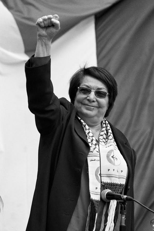 Black and white photography from the Palestinian political activist Leila Khaled during her visit to València in 2017 in an event organised by BDS País Valencià, taken by the photographer David Segarra.